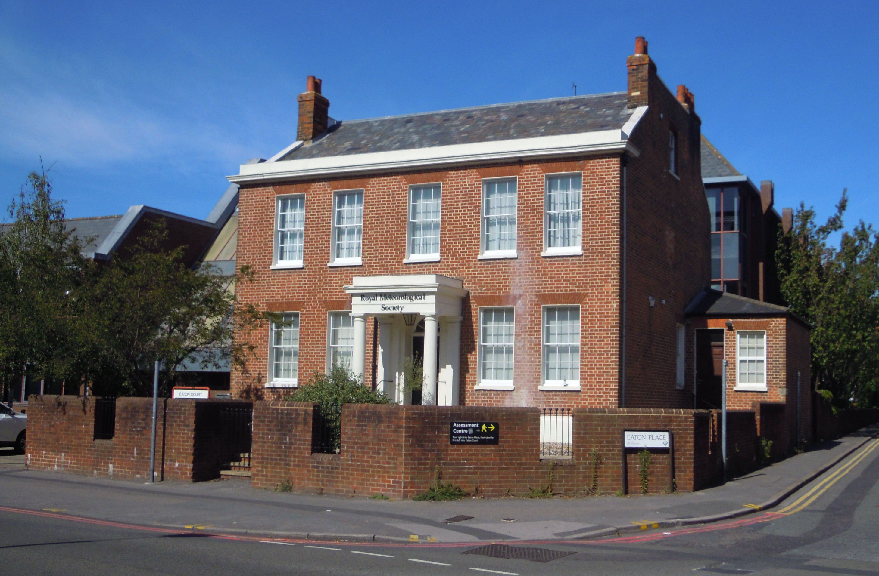 The Royal Meteorological Society building on Oxford Road, Reading in Berkshire